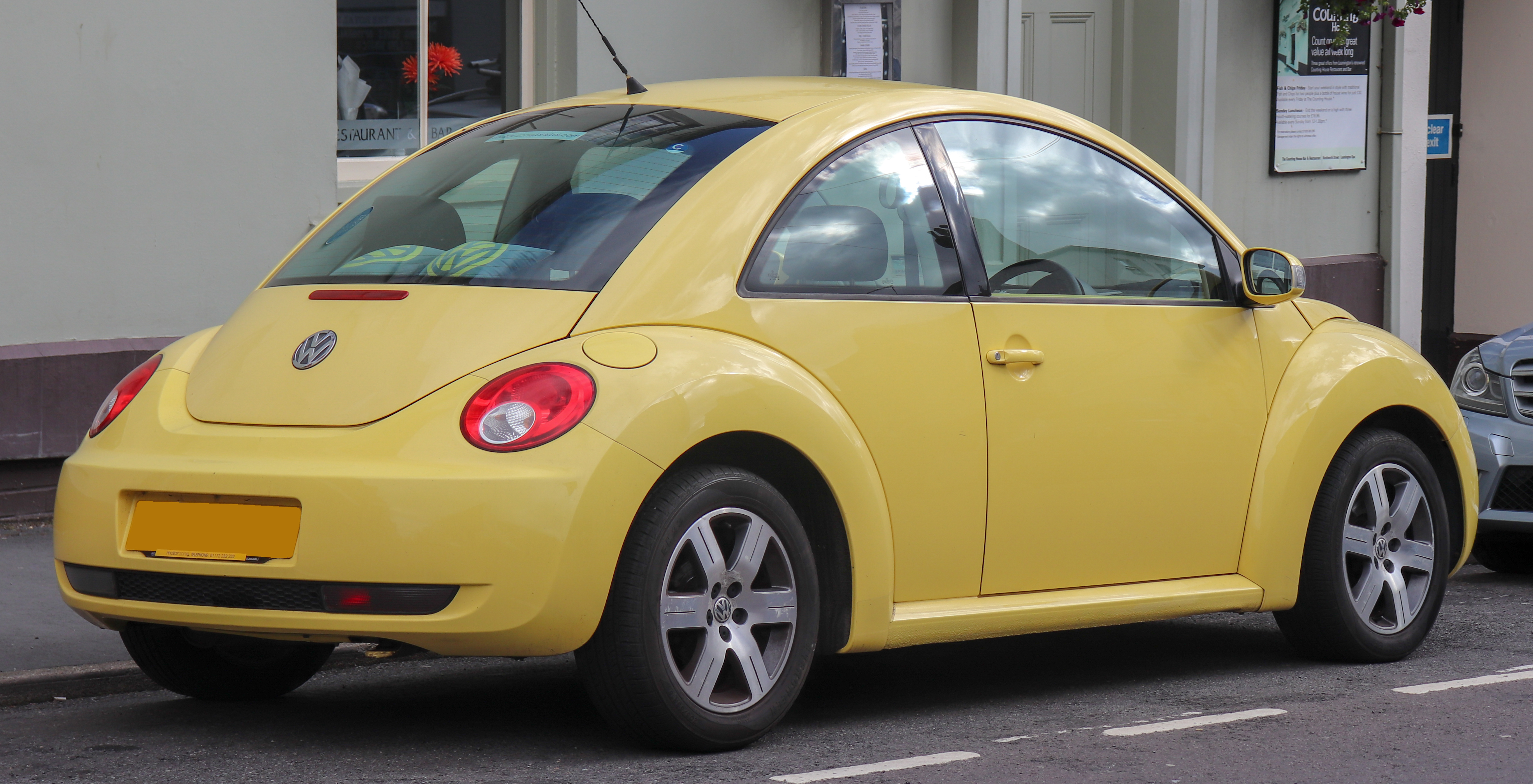 2006 Volkswagen New Beetle Luna 1.6 Rear Taken in Leamington Spa